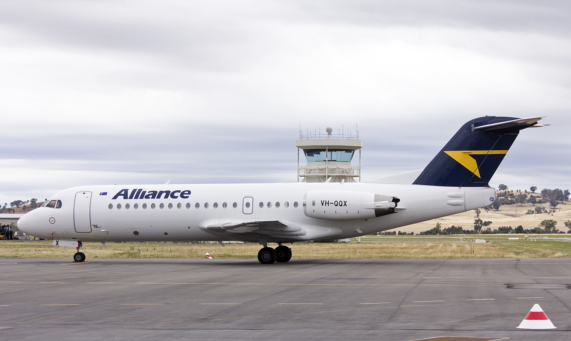 Alliance (VH-QQX) Fokker F70 parked on the tarmac at Wagga Wagga Airport.